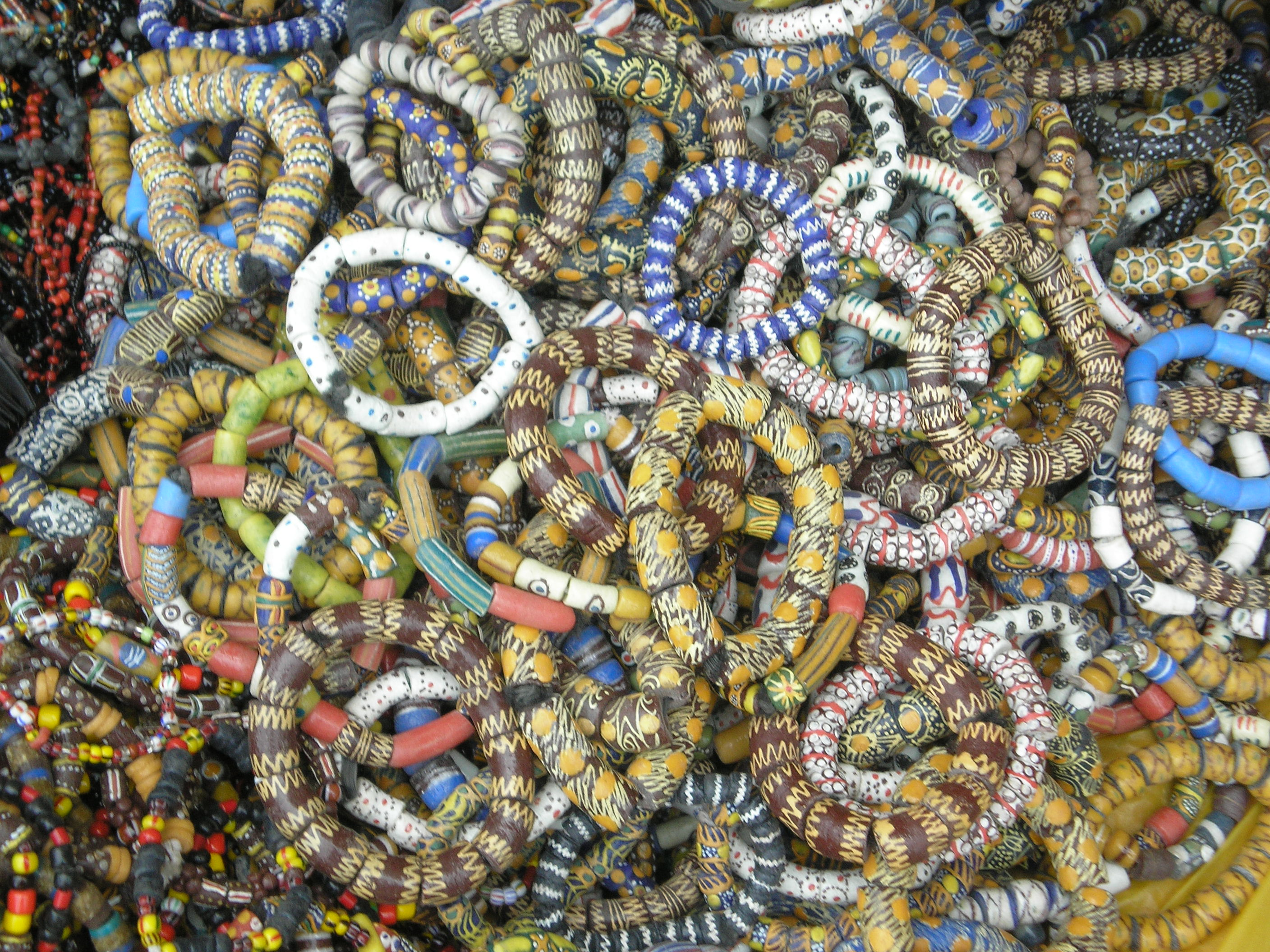 Bundles of African beads sold on the market in Kumasi, Ghana